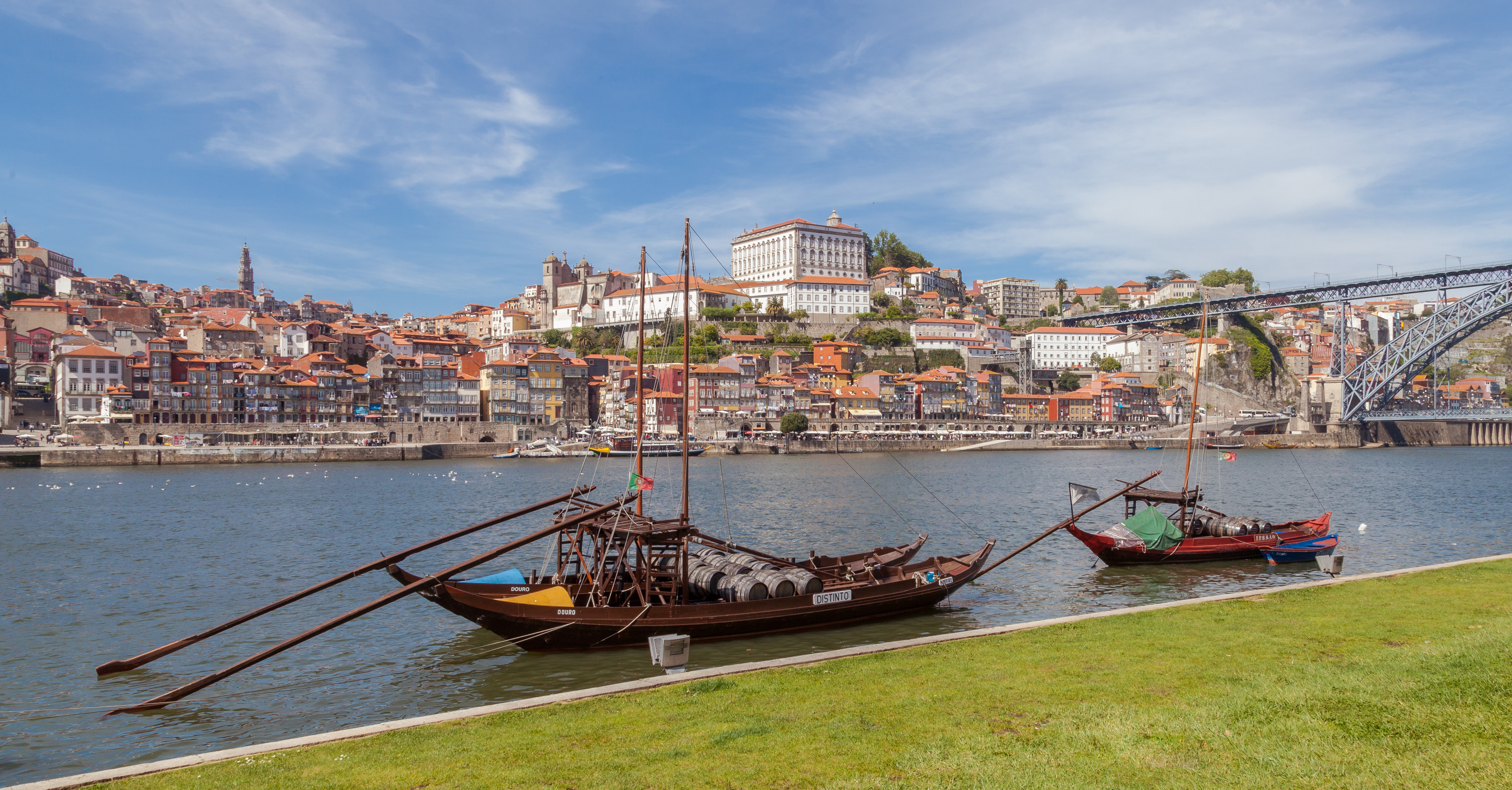 Rabelos in the Douro River with the city of Porto in the background, Portugal. Rabelos are traditional Portuguese wooden cargo boats used for centuries to transport people and goods from along the Douro River. Wine was brought in rabelos from the interior of the country to Porto, home to many wine cellars.